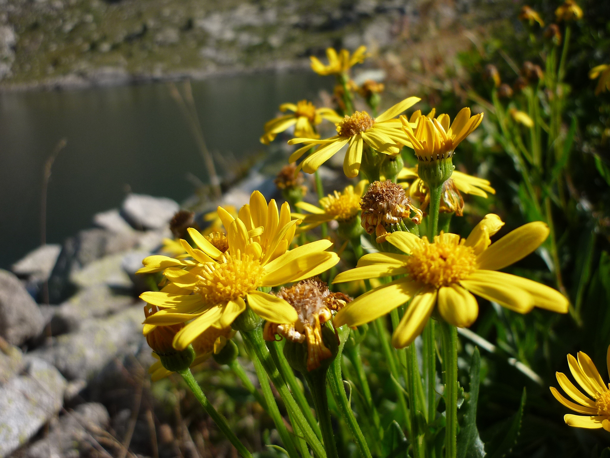 Senecio pyrenaicus. Near the Estany Gento (Pallars Jussà - Catalunya. To 2.150 m altitude